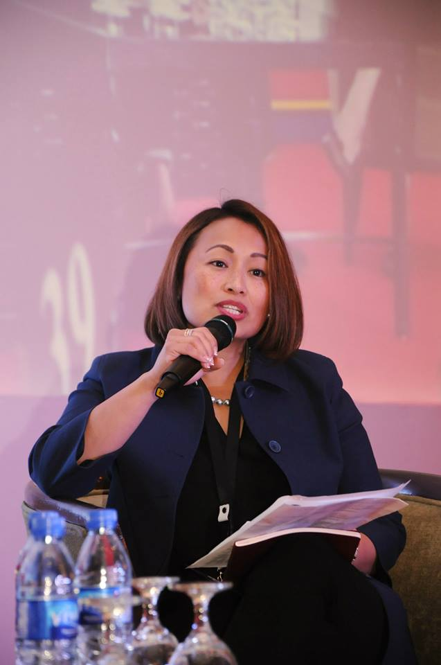 Sheila Lirio Marcelo, Founder, Chairwoman and CEO of , speaking to an audience.